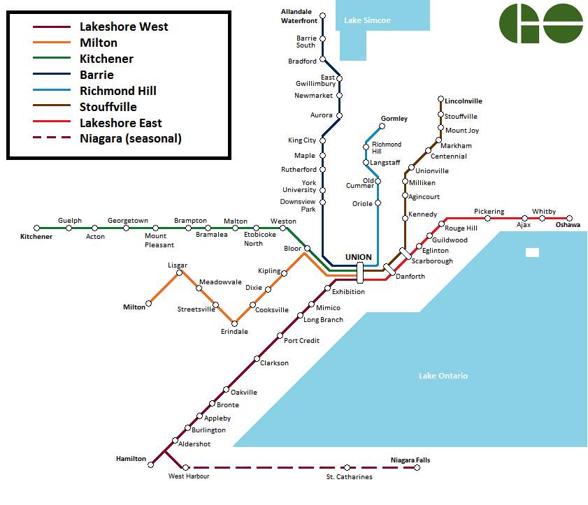 A diagram of the GO Train system. Created with Microsoft Paint.